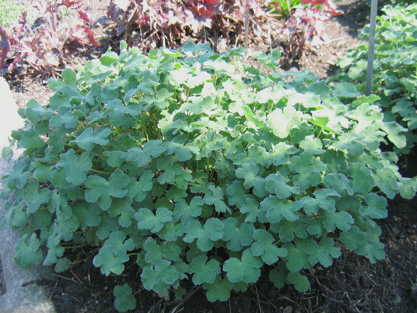 Geranium renardii cultivated in Wrocław University Botanical Garden, Wrocław, Poland.